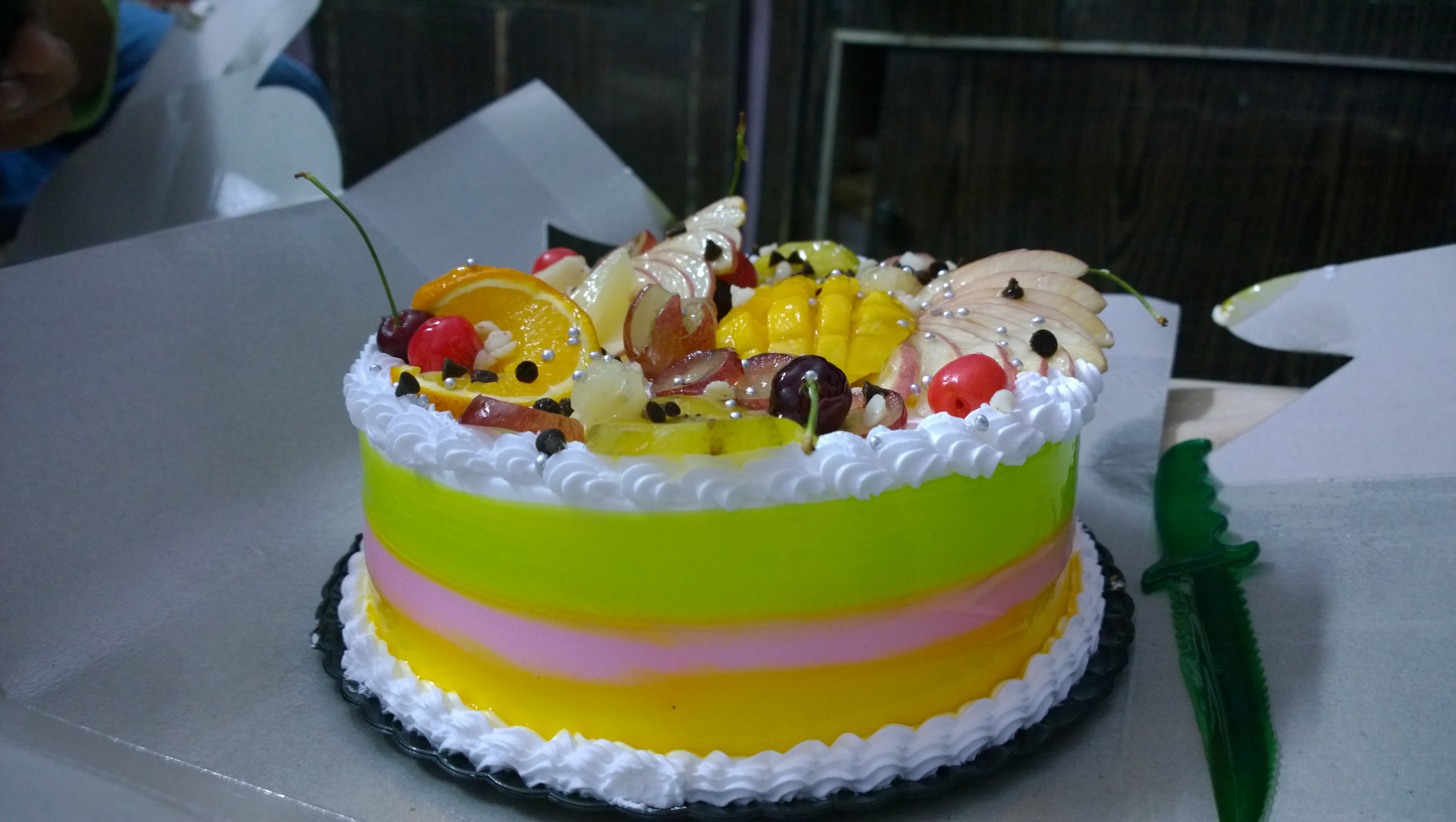 Yummy Fruit Punch Cake